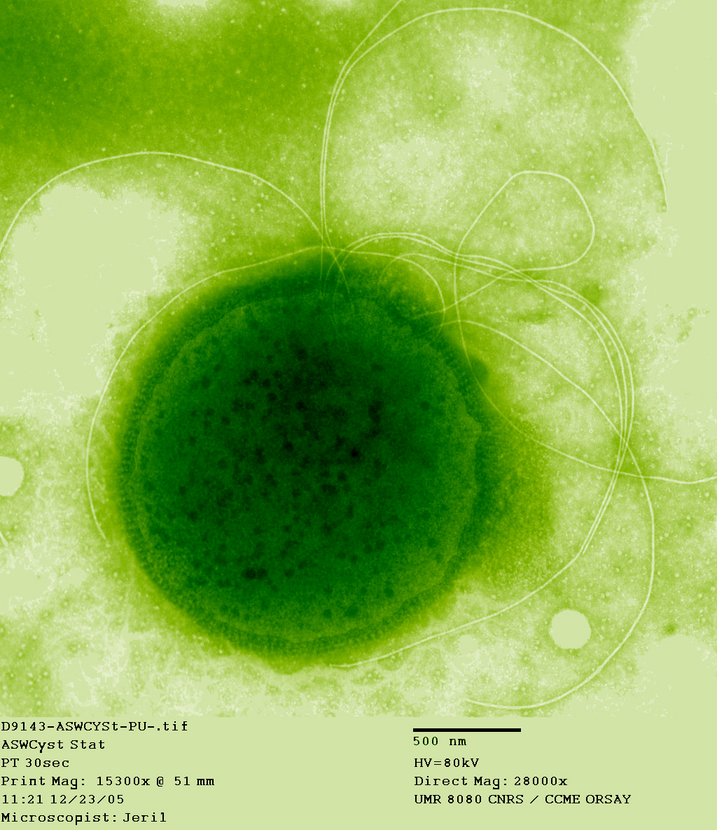 Microphotograph of the Archea Thermococcus Gammatolerans